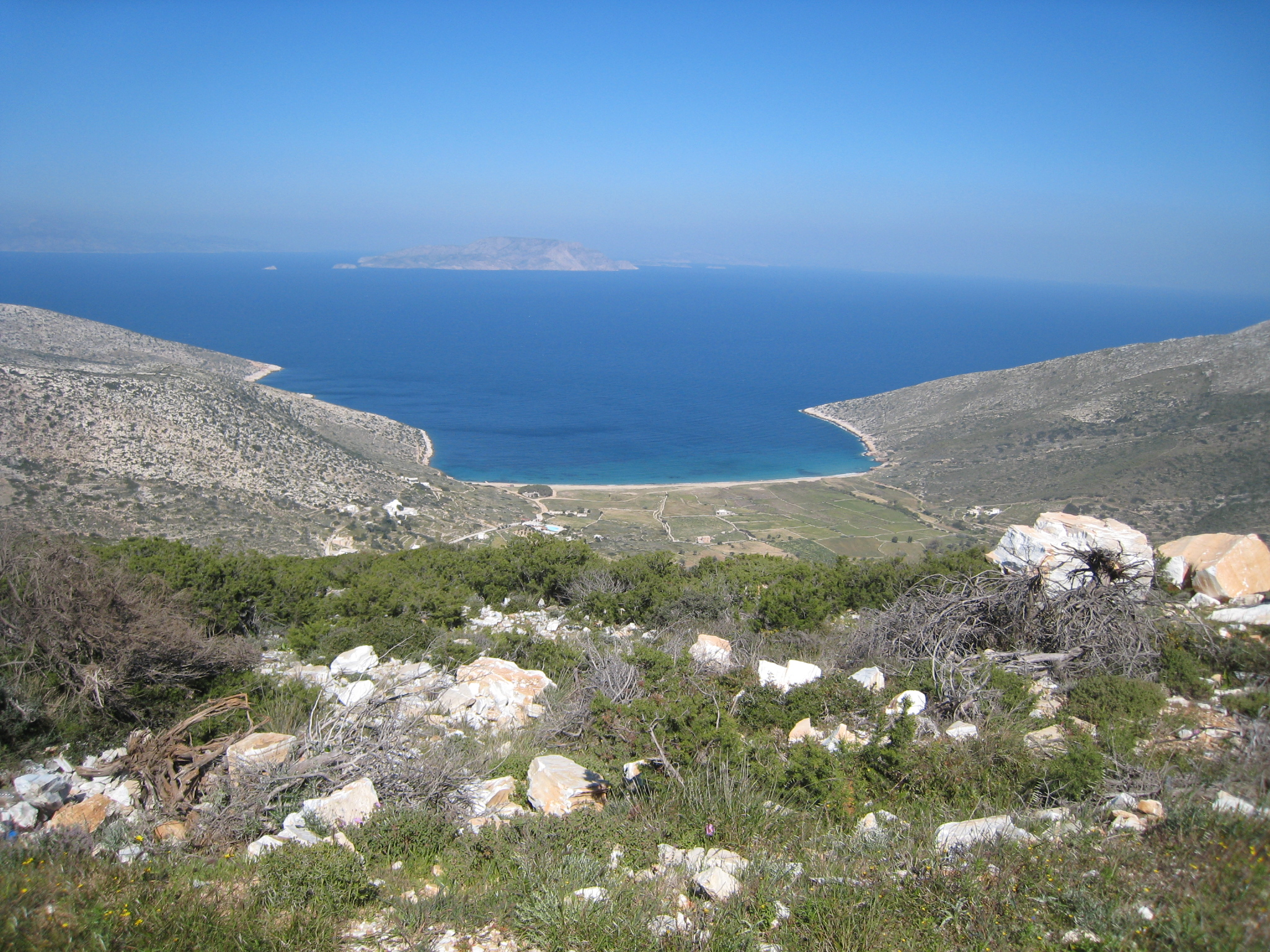 Agia Theodoti Bay, Ios island, Cyclades, Greece Island of Iraklia in the background